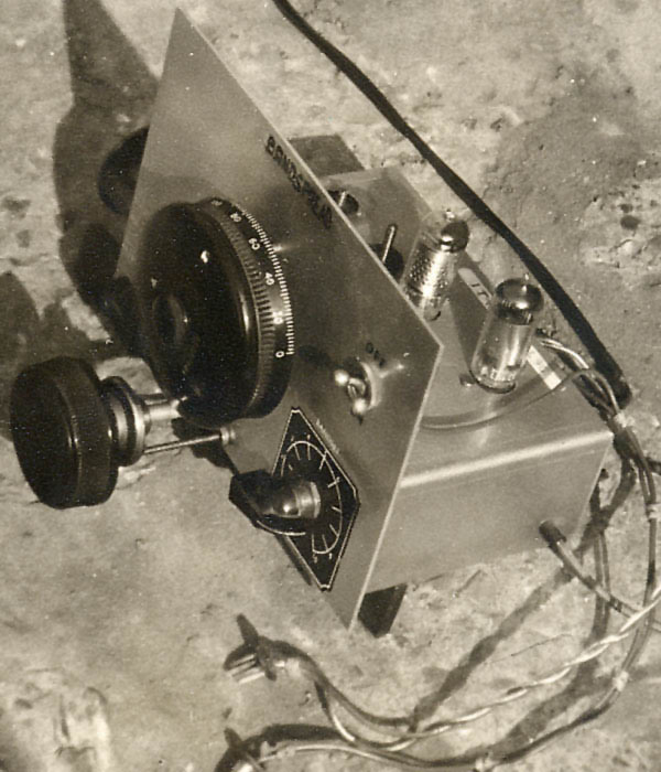 A two-valve home-made radio from 1958. The leads connect to the low-voltage filament battery and the high-voltage anode battery. Taken by Adrian Pingstone in 1958 and released to the public domain.